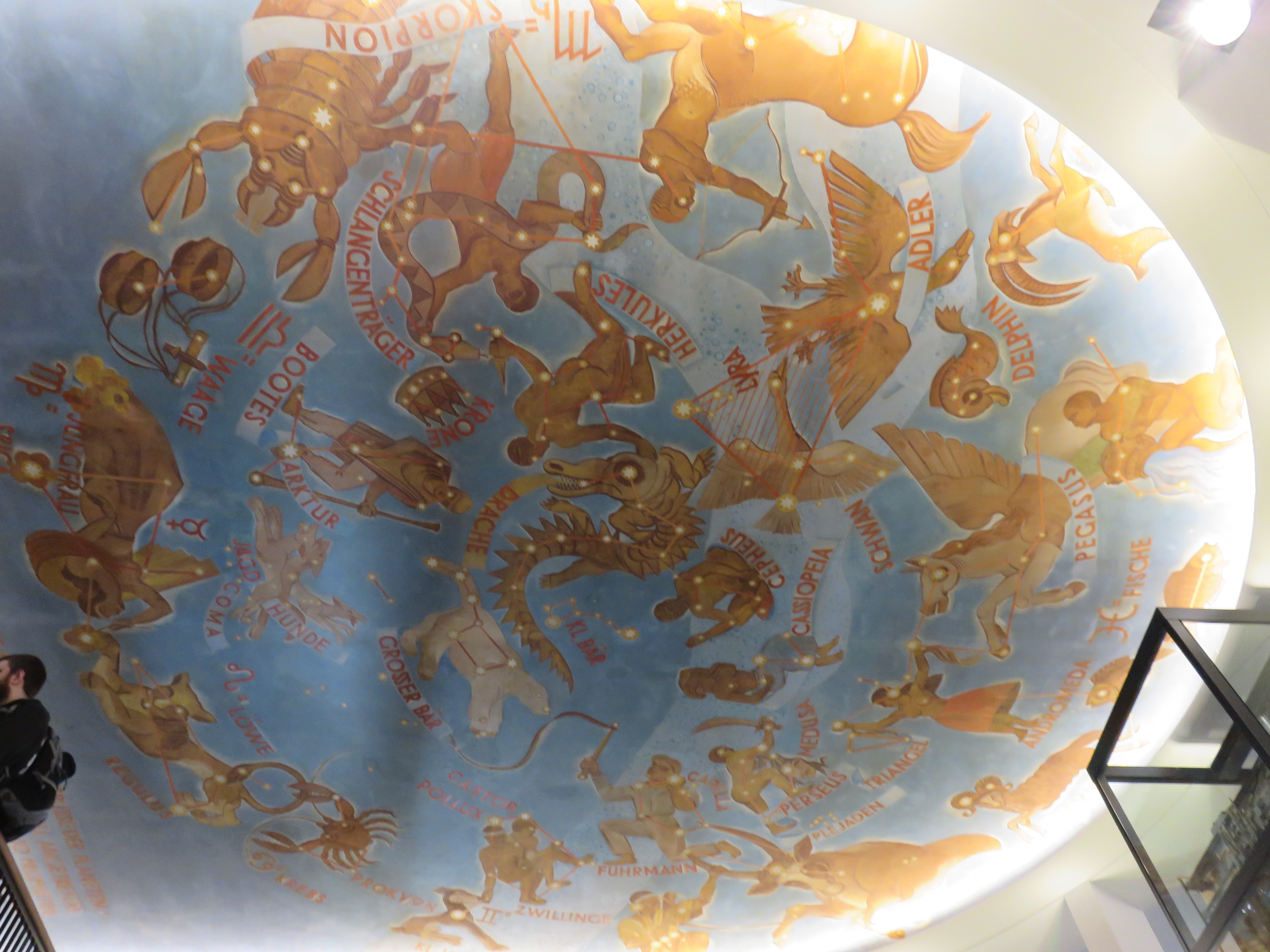 Planetarium Hamburg, Ceiling painting in the foyer